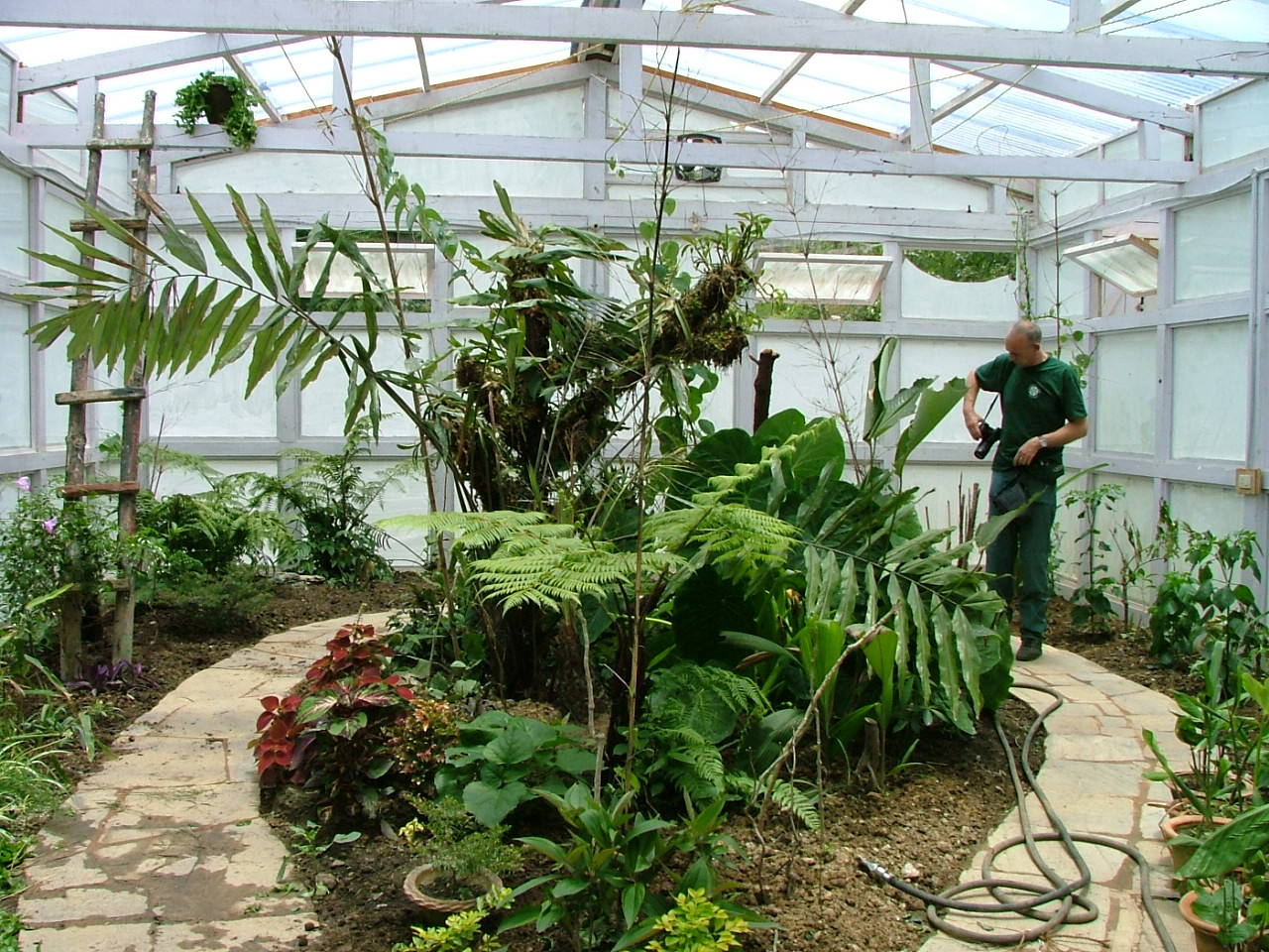 The glasshouse in the Royal Botanic Garden, Thimphu, Bhutan, 2004.